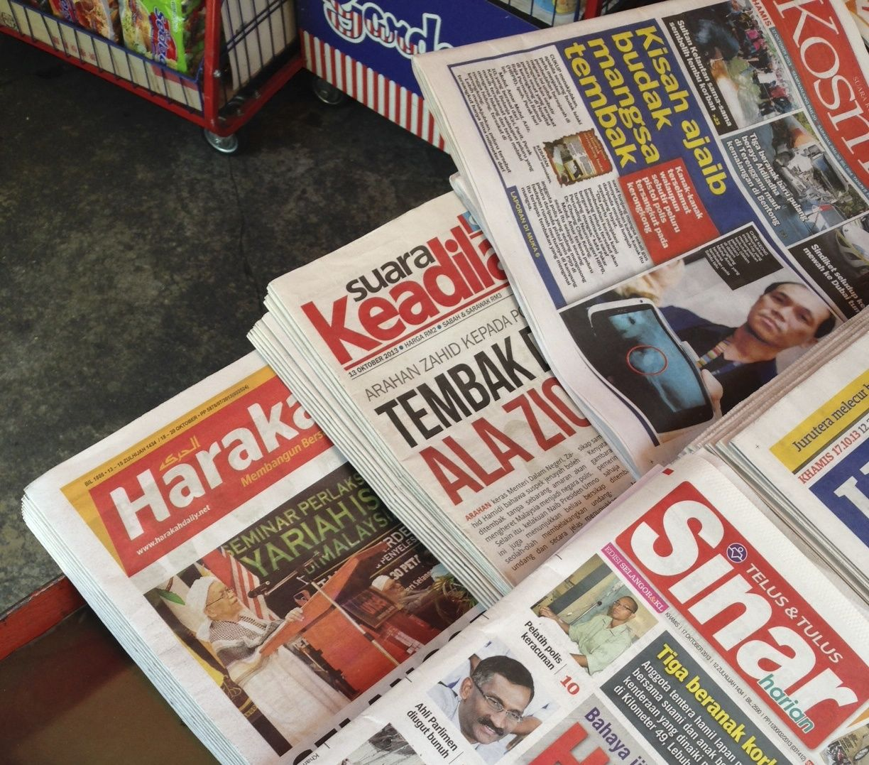 Malaysia opposition papers sold alongside regular mainstream newspapers